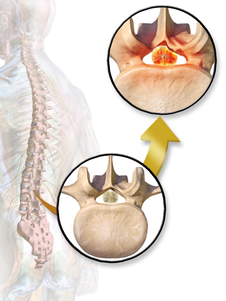 Spinal Stenosis. See a full animation of this medical topic.